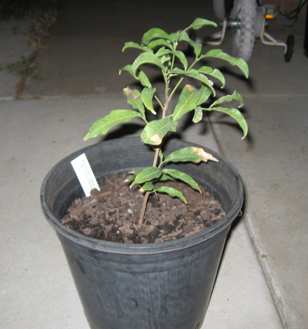 Photograph of a potted seedling of Diploglottis campbelli. Photograph taken by myself.